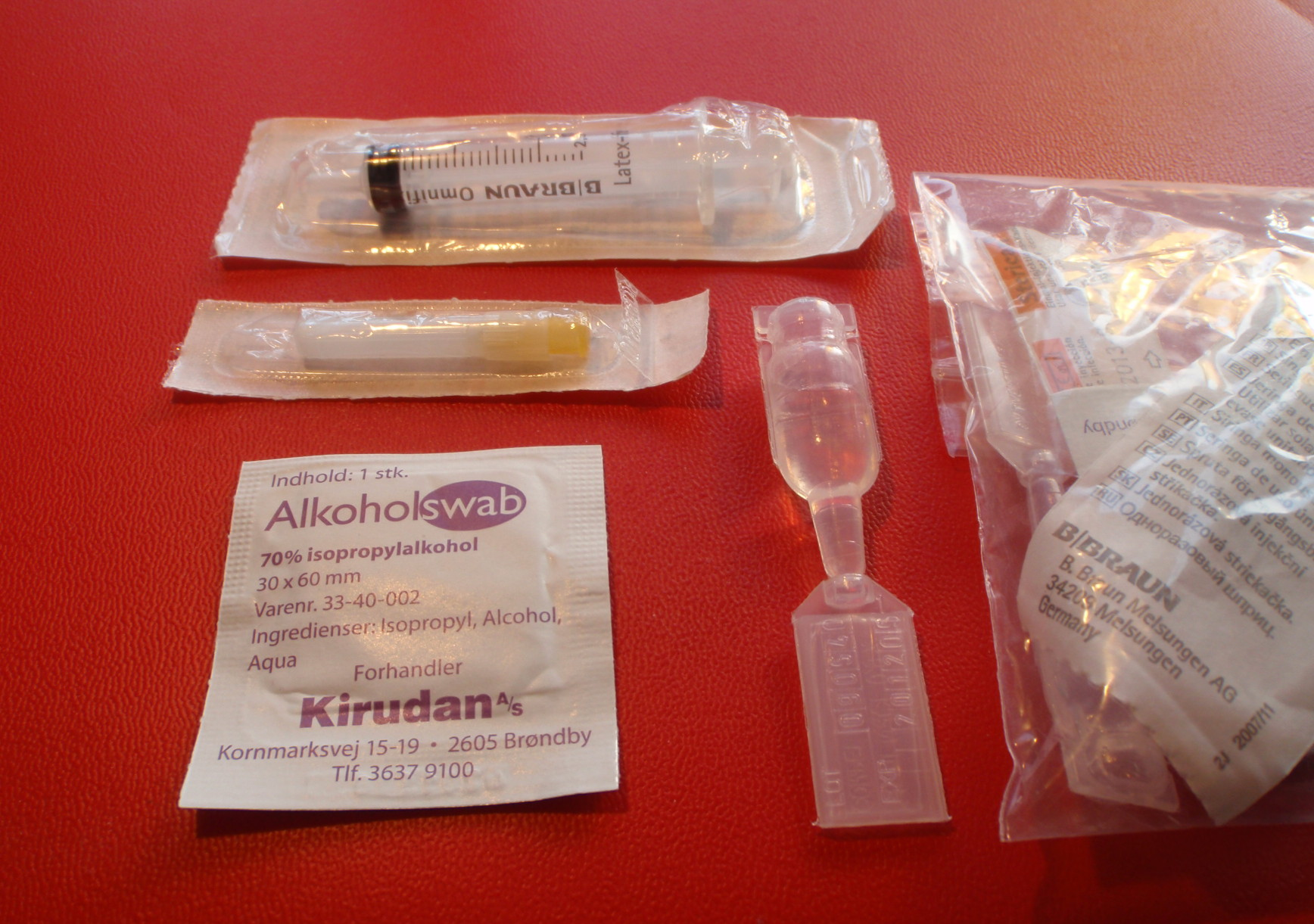 A injection kit used in harm reduction programs and given to intravenous drug addicts.